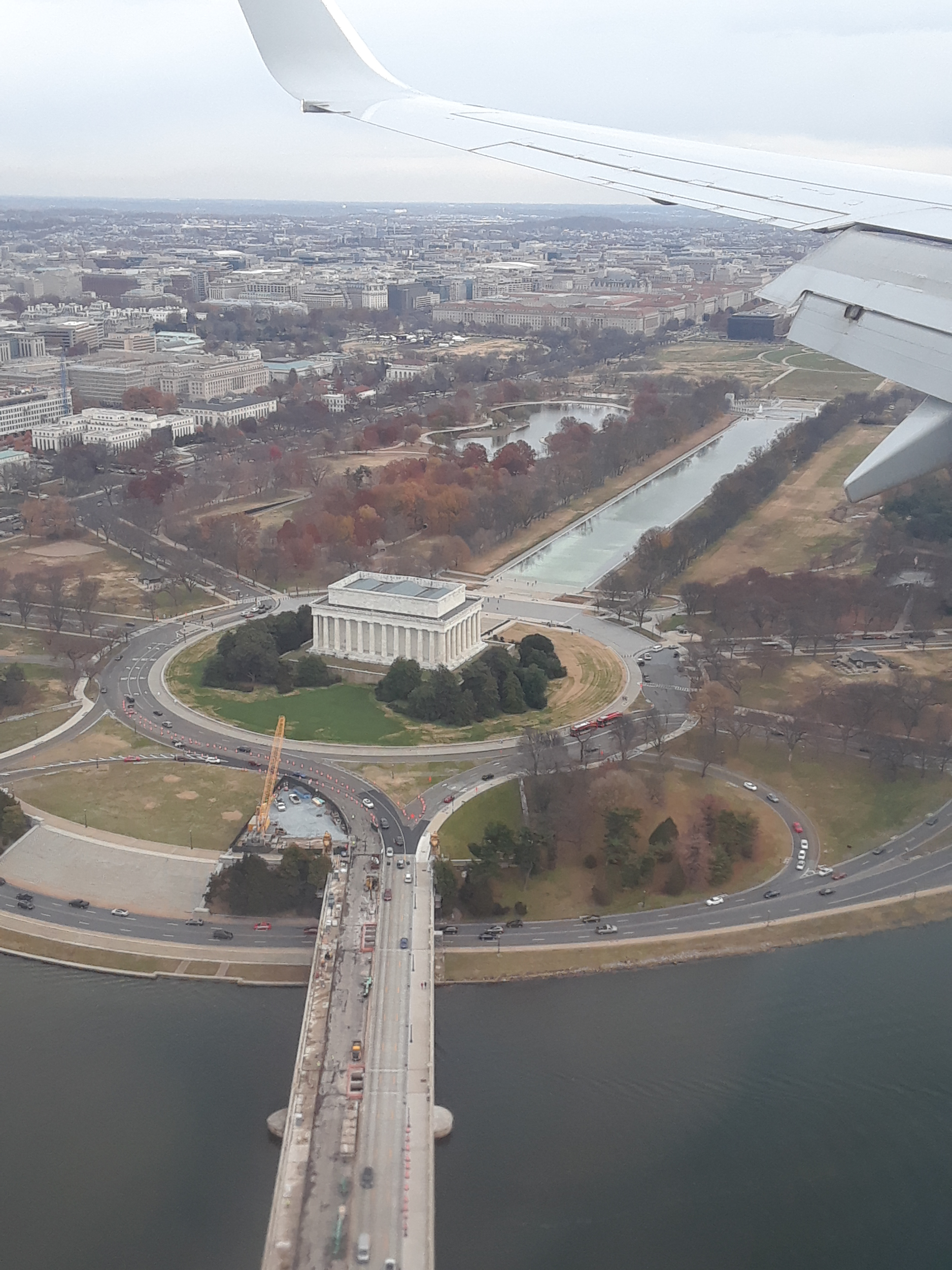 Lincoln Memorial and Reflecting Pool - DC Aerial